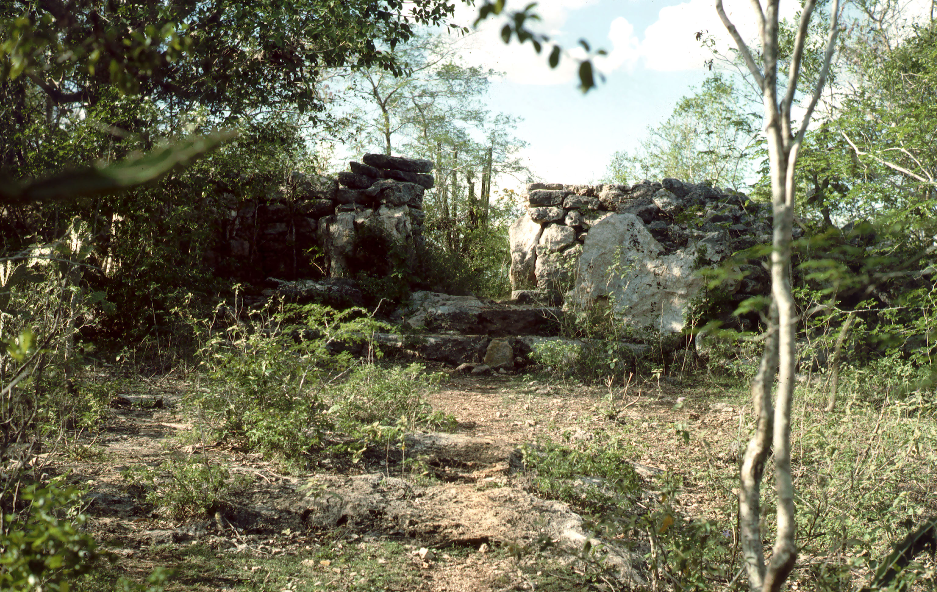 Mayapan, Yucatan, Mexico: city wall.